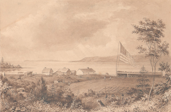 Image taken from - due to its age, and the fact that it's a product of the US government, it's in the public domain. Link dead, image can be now found at